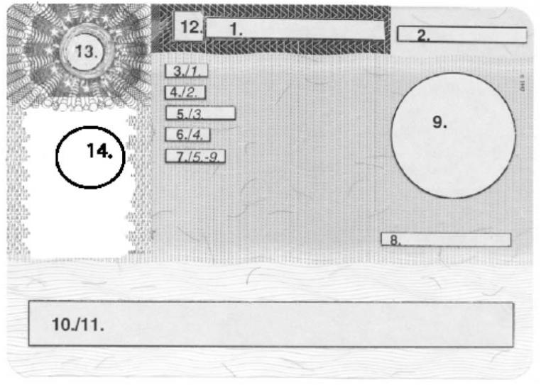 Residence permit for third-country nationals in sticker form